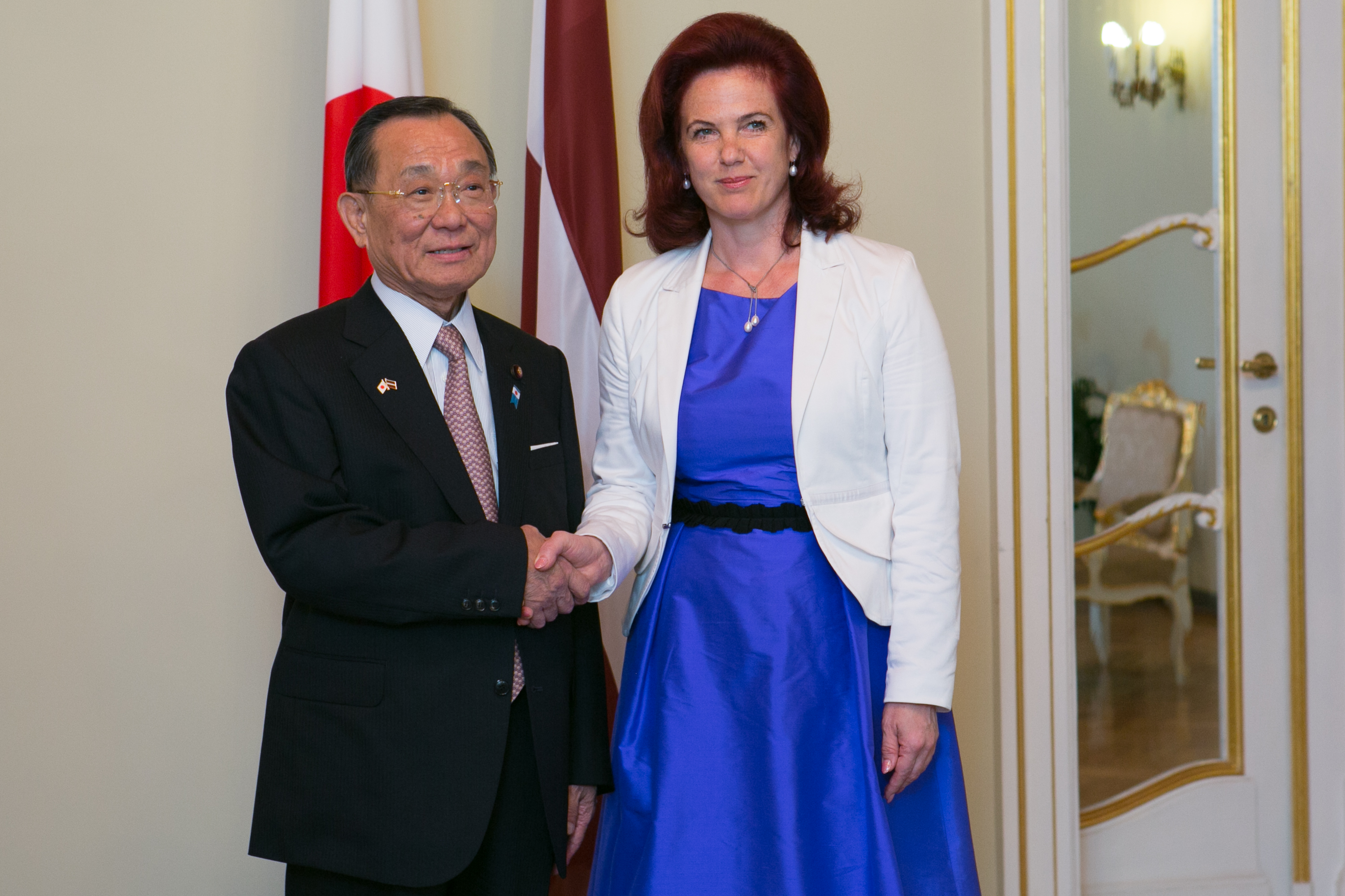 日本與拉脫維亞國會議長